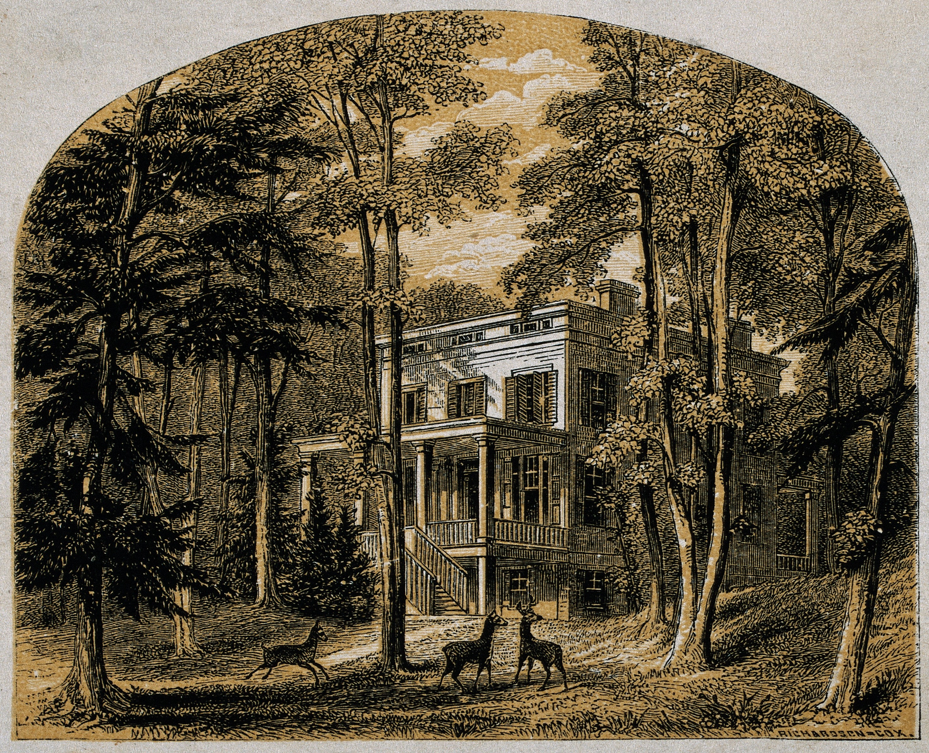 John James Audubon: his house. Colour line block by Richardson Cox. Iconographic Collections Keywords: Richardsen Cox; John James Audubon This is Audubon's residence at Minnie's Land, New York.